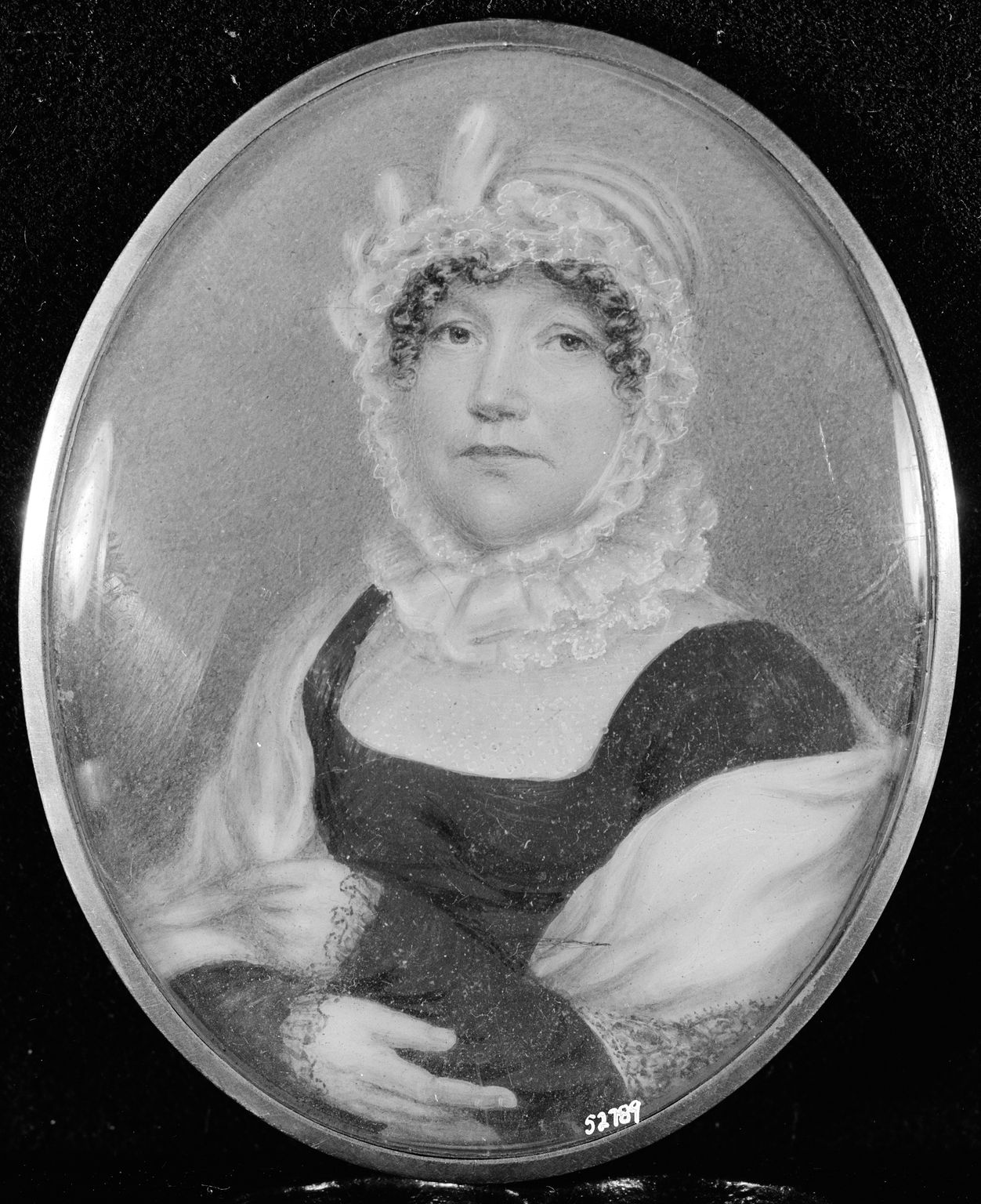 Title:Mrs. John Jacob Astor (Sarah Todd). Author/Artist:Jarvis, John Wesley, 1780-1840, attributed to Creation Date:1800 Description:Graphic reproduction(s) with documentation of a miniature. 3 1/4 x 2 1/2 in. ivory.